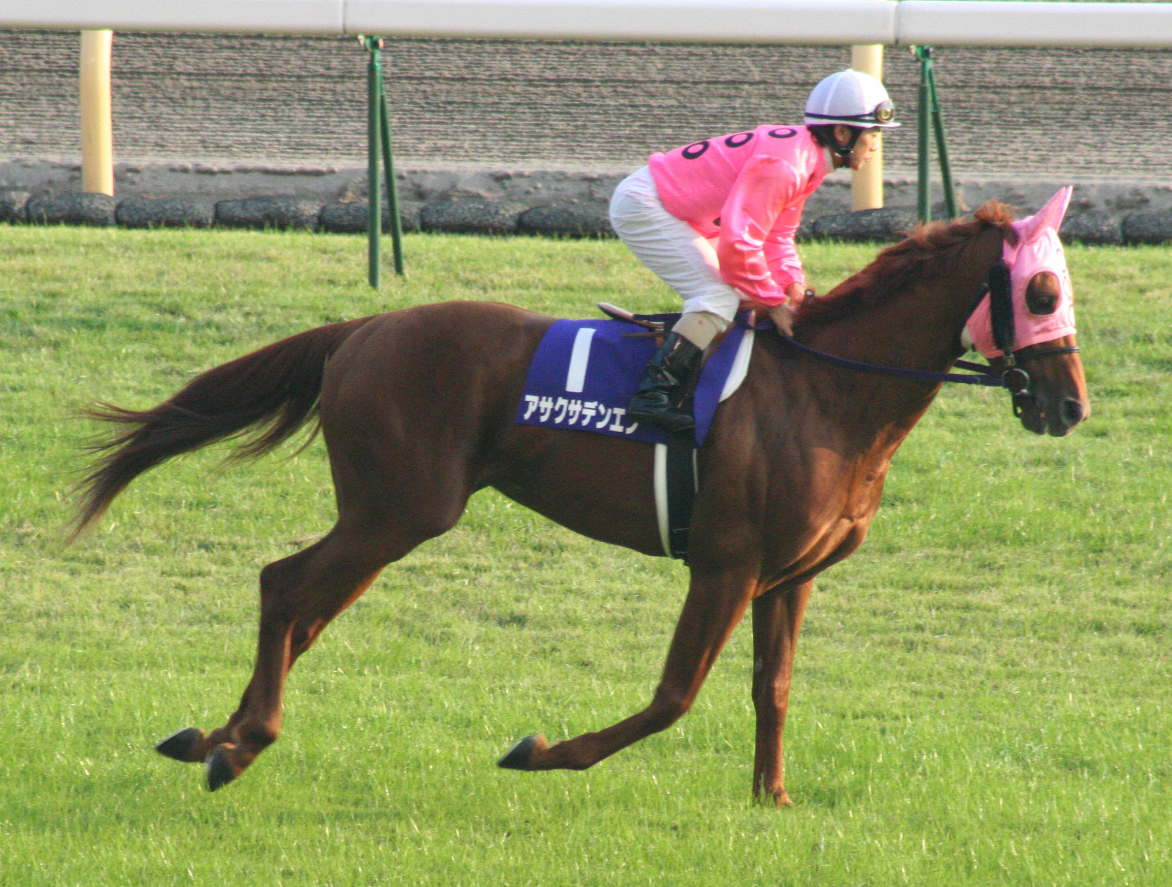 Ear muffs and winkers, Asakusa Den'en (Tokyo Racecourse)